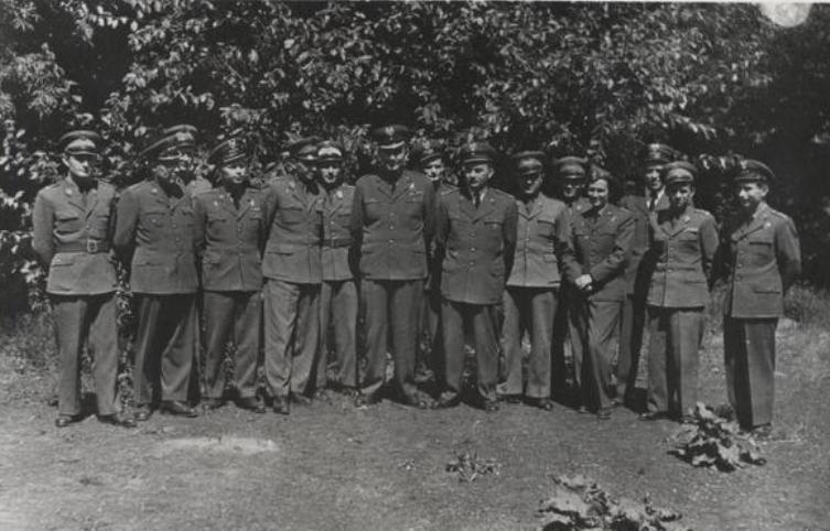 Dowódca 64.LPS mjr pil. Kazimierz Ciepiela i kadra pułku, 1959